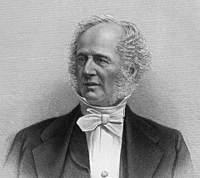 Cornelius Vanderbilt, the "railroad tycoon"